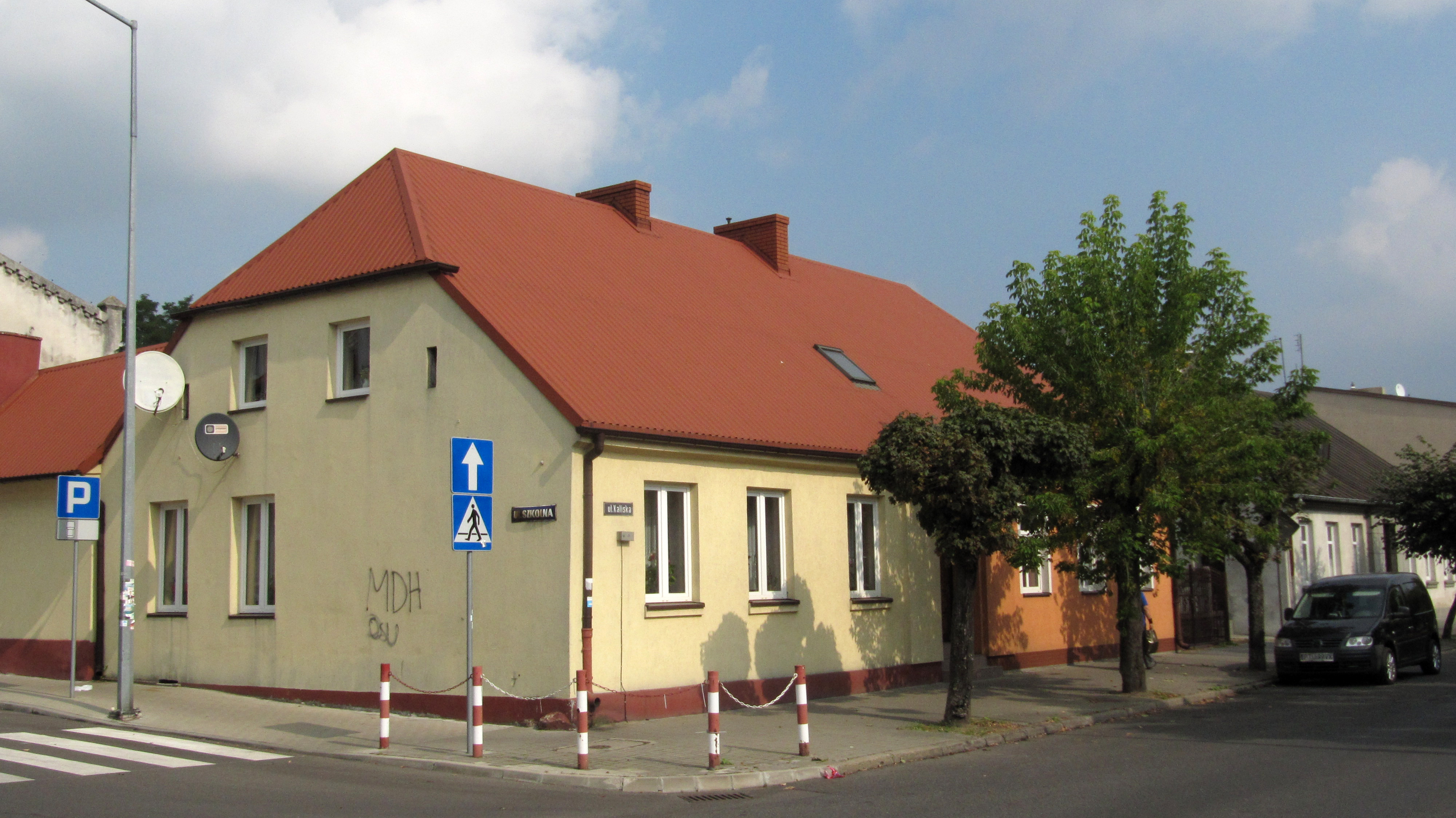 Turek, ul. Kaliska 40 (weaver's house), 2014